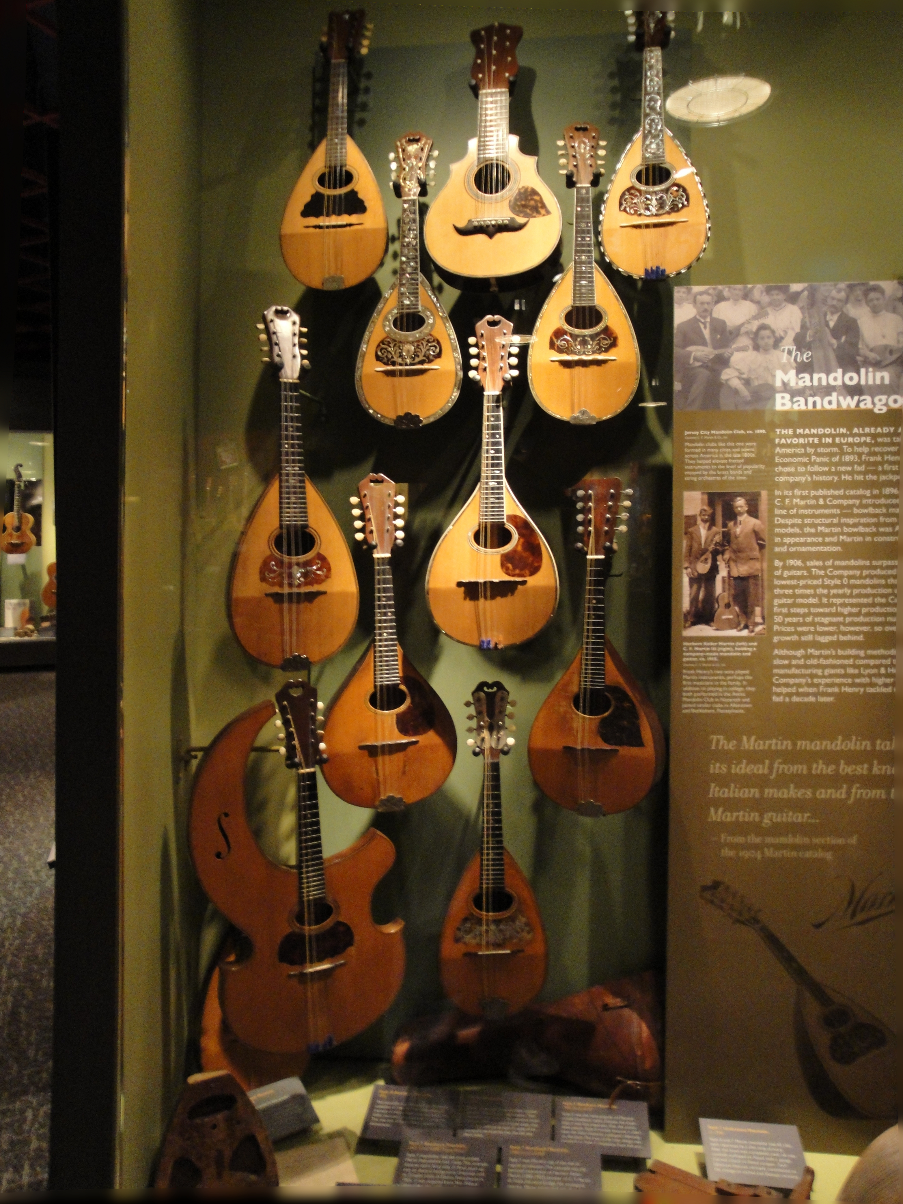 C.F.Martin Guitar Factory Tour (DSC00767)